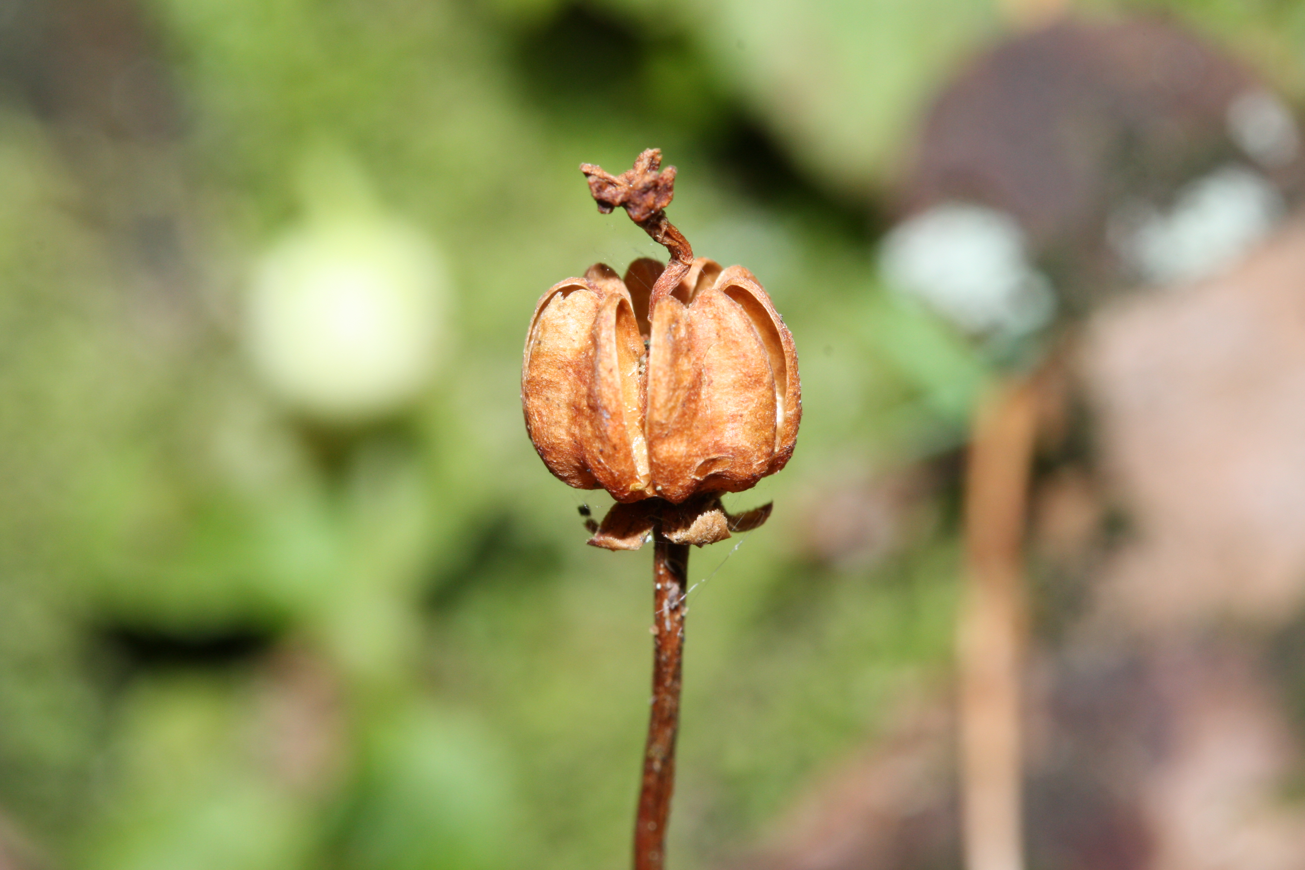 Single-delight